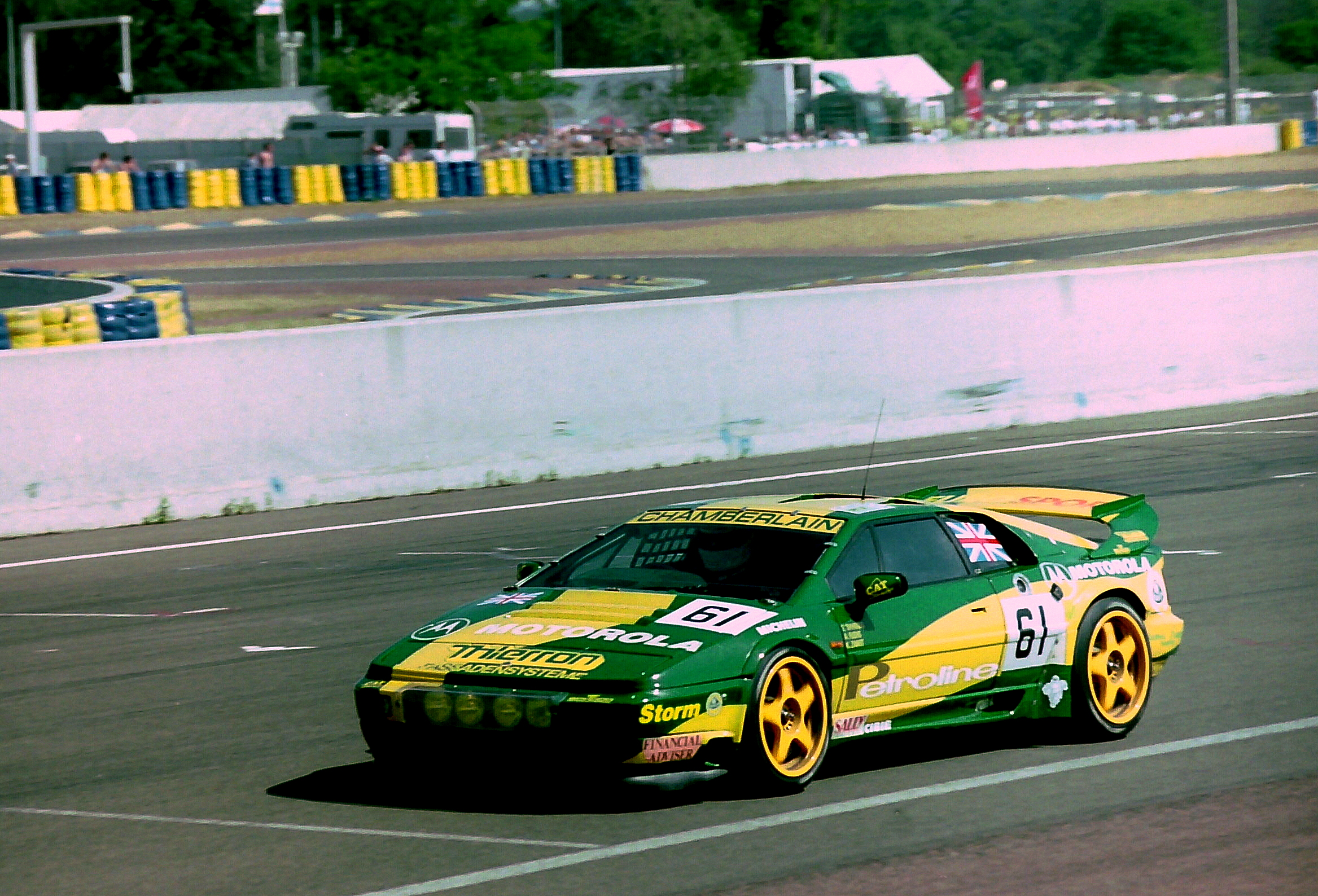 Lotus Esprit Sport 300 - Thorkild Thyrring, Andreas Fuchs & Klaas Zwart enters the pit straight at the 1994 Le Mans